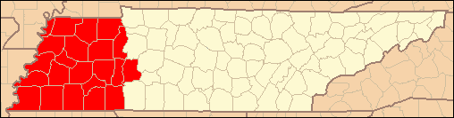 Locator Map of Tennessee, United States, showing the United States District Court for the Western District of Tennessee